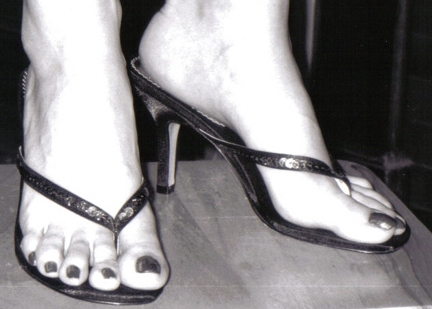 Didi wearing stiletto heel thong sandals